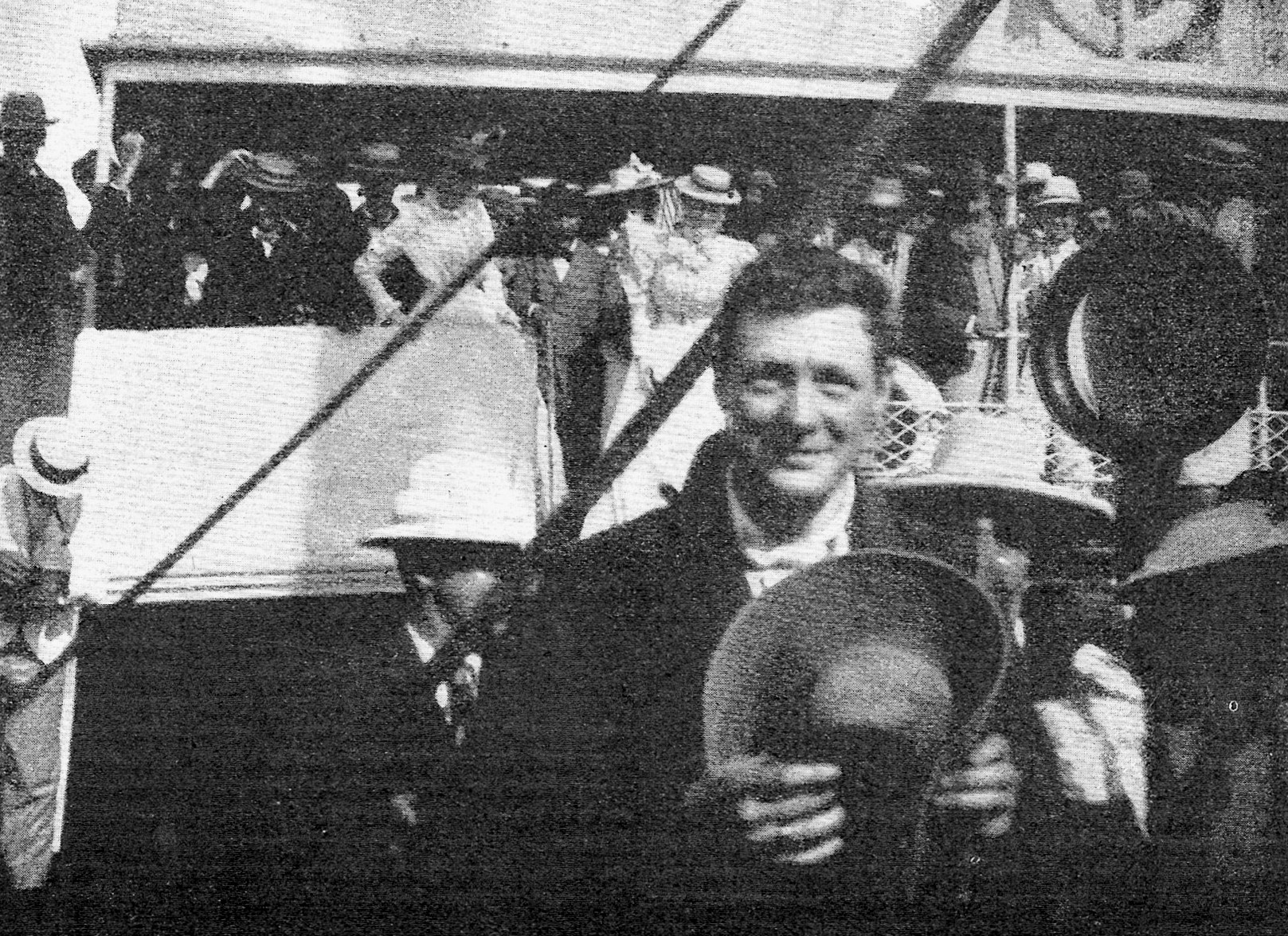 Winston Churchill in South Africa, published in The Black and White Budget Vol 2, No 18, page 5. Caption reads "Escaped! Arrival of Mr Winston Churchill at Durban from Pretoria". At the time Churchill was a journalist covering the Boer War for The Morning Post.